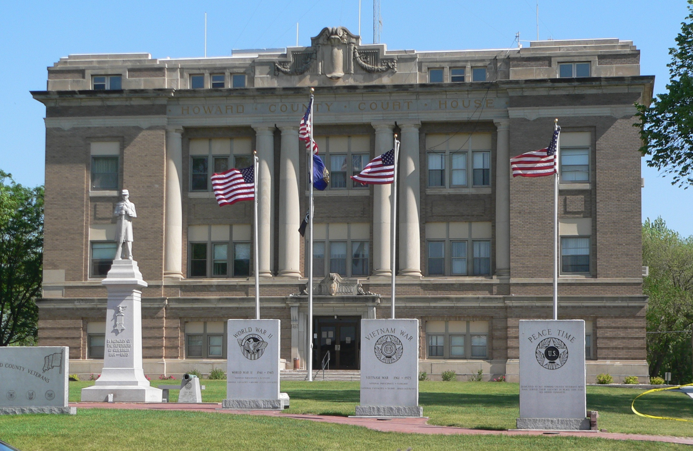 Howard County Courthouse in St. Paul, Nebraska; seen from the south. The building was designed in Classical Revival style by architects Berlinghof & Davis, and built in 1913. It is listed in the National Register of Historic Places.